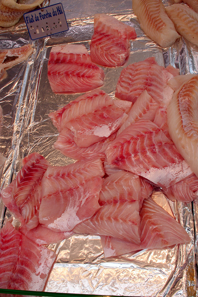 Nile Perch / Perche du Nil, at the fishmarket